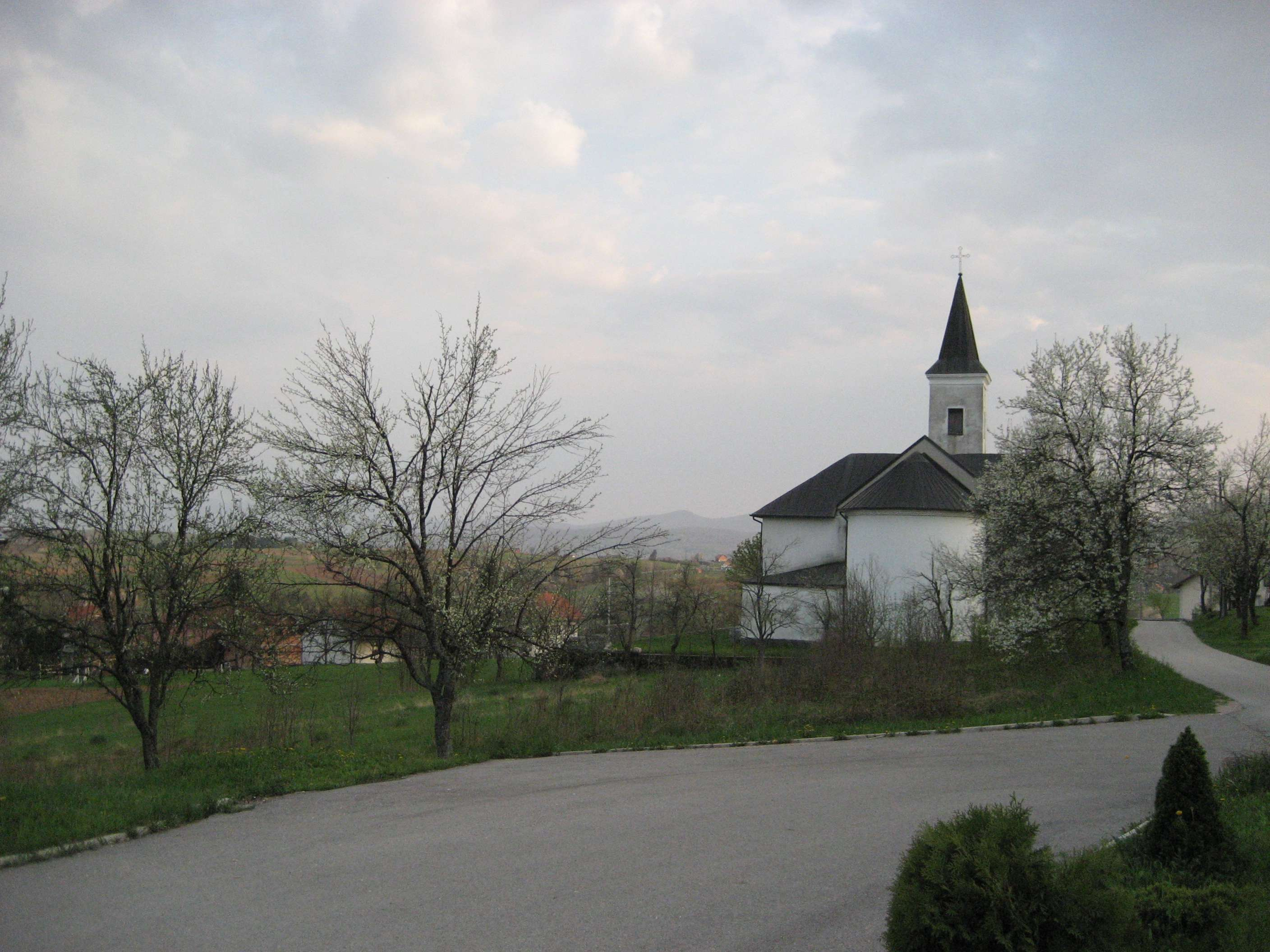 Crkva sv. Jelene u Rakovici, st. Jelena Church in Rakovica